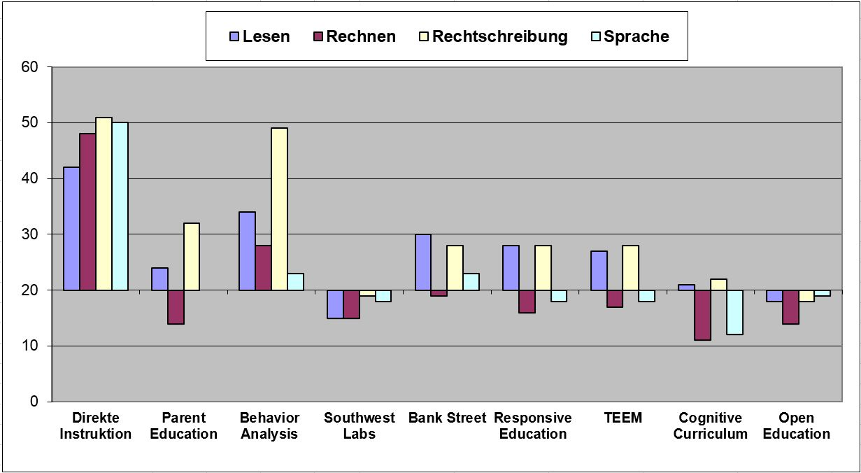 Own drawing after a Project Follow Through Evaluation Chart